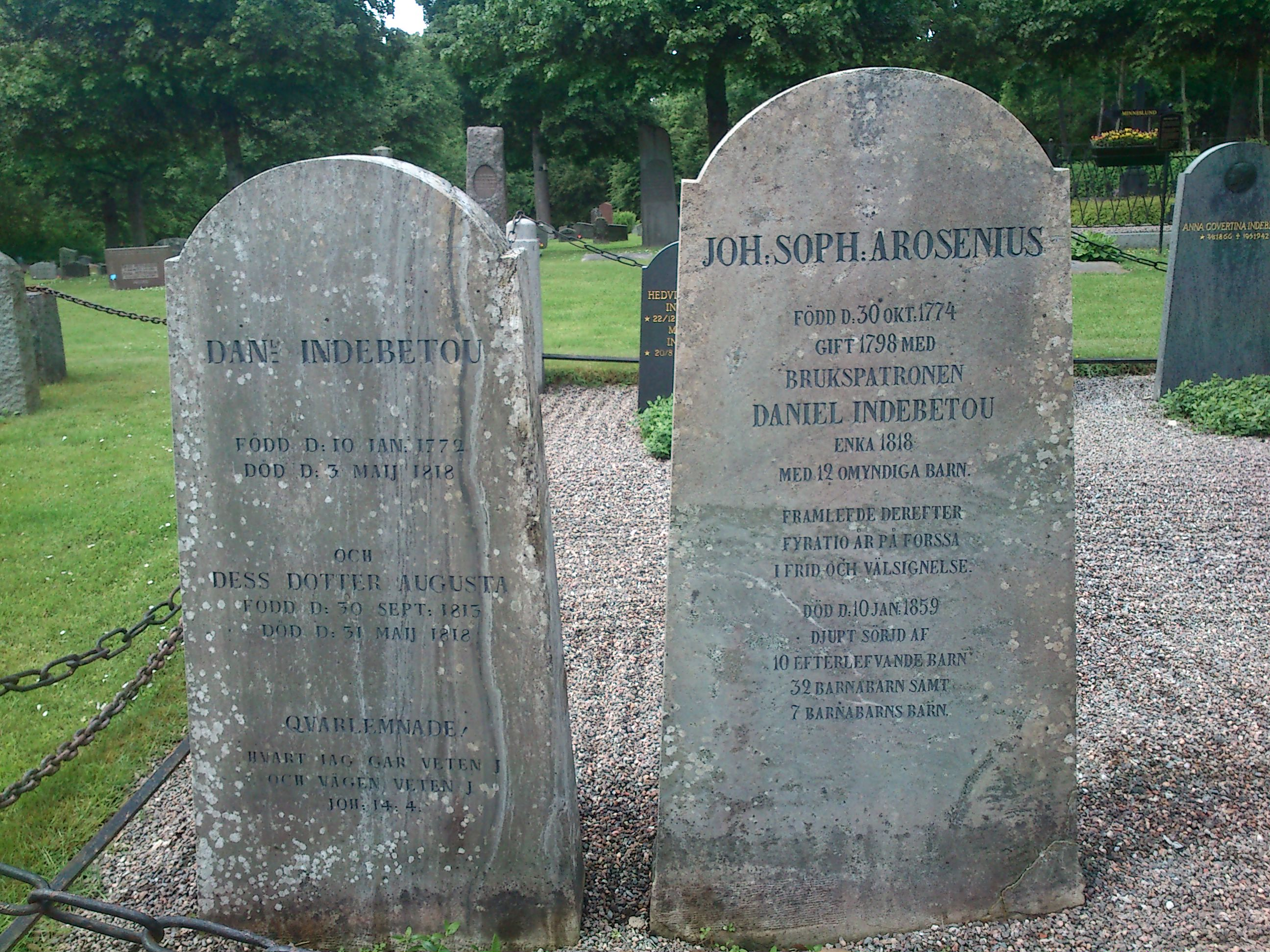 Two gravestones at the cemetery at Östra Vingåker's church. To the left the gravestone for Daniel Indebetou (1772 - 1818), ironmaster of Forsa bruk